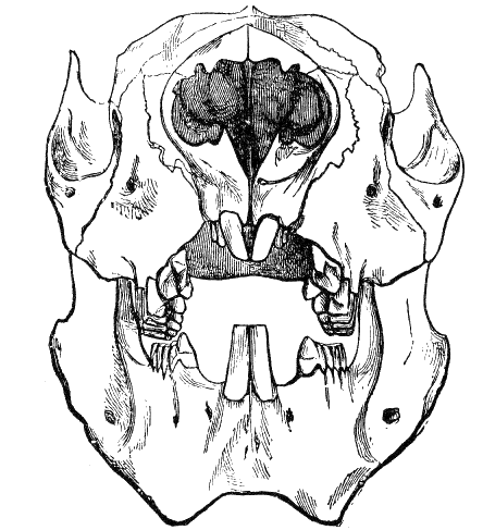 Fig. 77.—Front view of skull of Koala (Phascolarctos cinereus), illustrating Diprotodont and herbivorous dentition. (From Flower.)